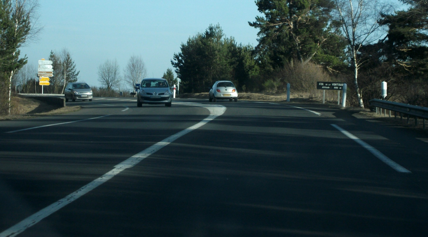 Col de la Ventouse mountain pass towards Clermont-Ferrand. Departmental road 2089, former national road 89, Aydat, Puy-de-Dôme, France.